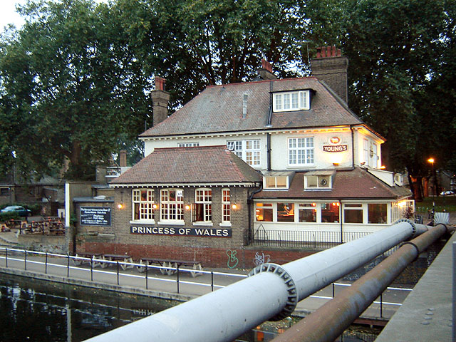 The Princess of Wales, Lea Bridge Road, Lea Bridge, Hackney, London. Taken from the south side of Lea Bridge. 11 October 2005. Photographer: Fin Fahey